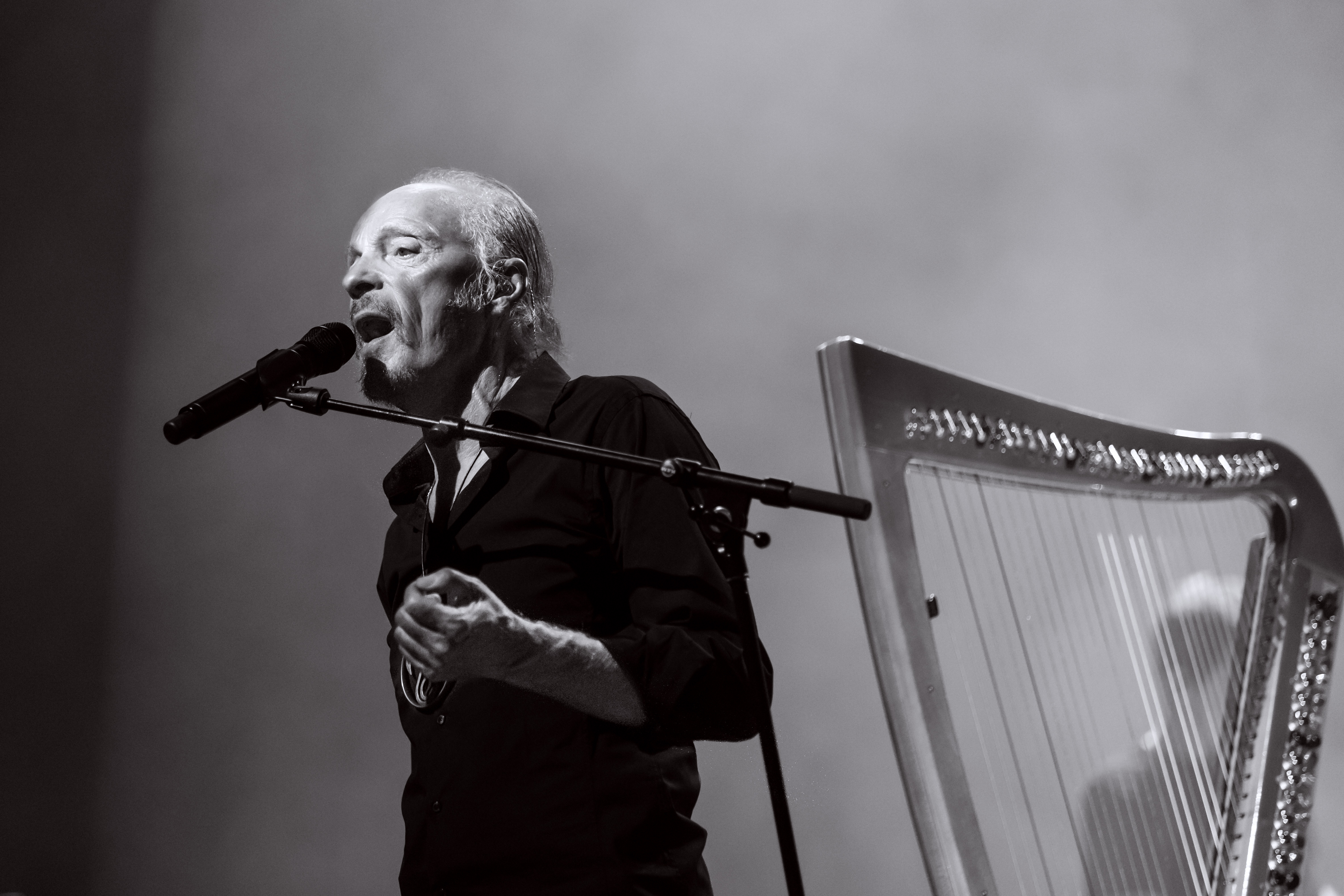 Alan Stivell in live during Cornouaille Festival (Quimper, Brittany) July 22, 2016.